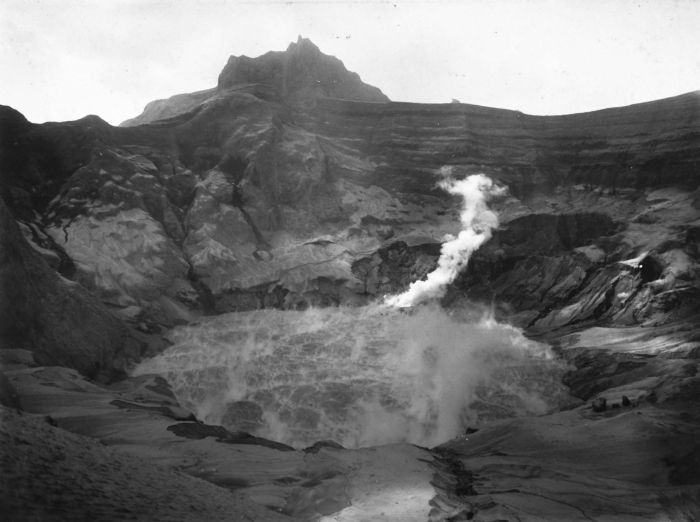 Photo. The crater of Mount Kelud after the volcano eruption of 1901